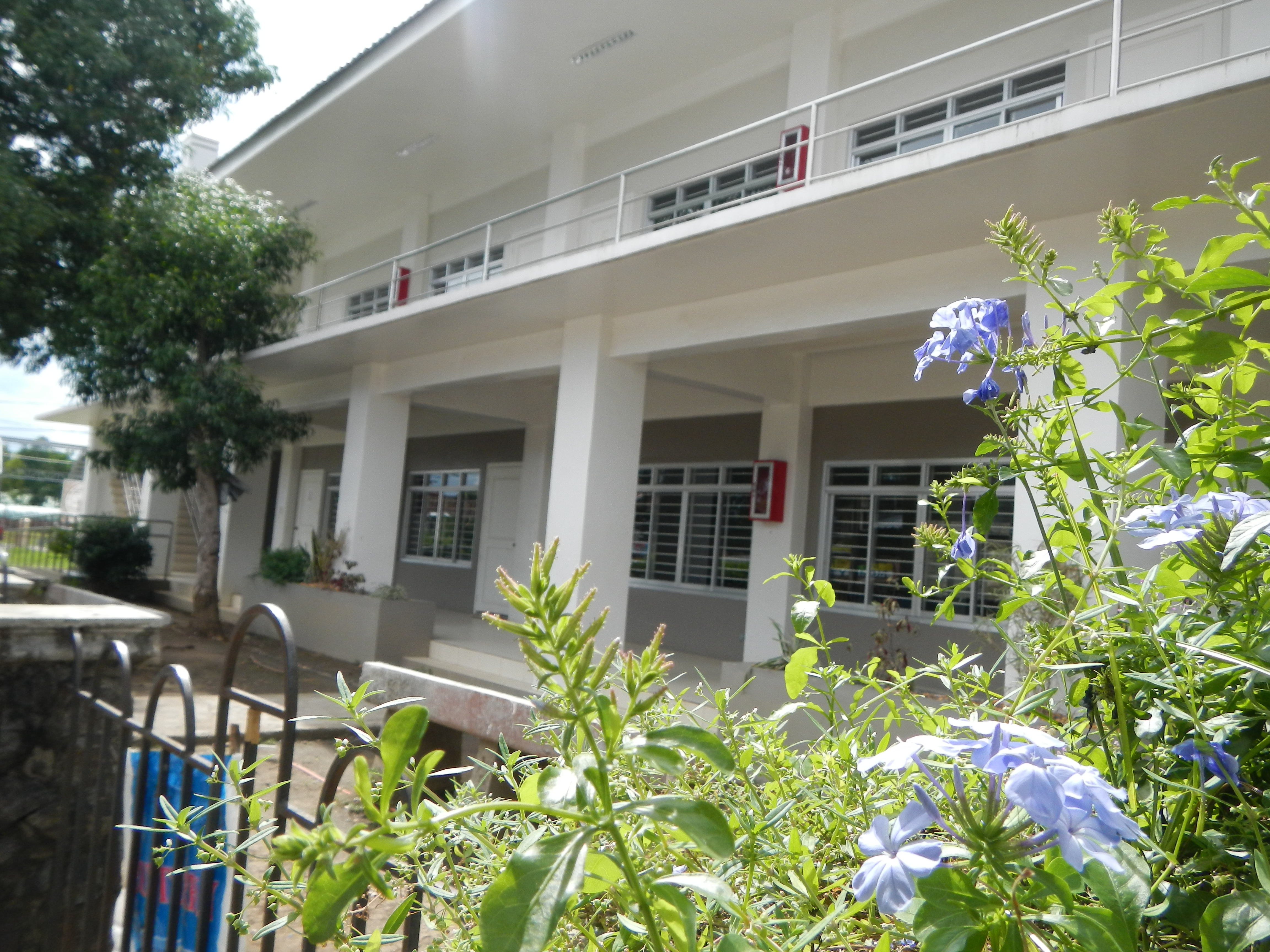 Batangas State University Jose P. Laurel Polytechnic College[1] The Batangas State University Jose P. Laurel Polytechnic College formerly Jose P. Laurel Sr. Memorial School of Arts and Trades is a local technology-based curriculum satellite campus of Batangas State University[2] located in Malvar, Batangas. It was established on June 15, 1968 and later elevated into a college by the virtue of the Republic Act 7518 which was passed by the Philippine Congress on May 21, 1992. Years later on March 22, 2010, the school was acquired by Batangas State University as a satellite campus after the proclamation of the Republic Act 9045.[3] Batangas State University System[4] Malvar, Batangas [5] is a second class municipality in the Province of Batangas[6], Philippines. As of 2009, the population of Malvar was 41,270 and the total number of households was 8,678. The municipality was named after General Miguel Malvar[7], the last Filipino General to surrender to the American Government in the Philippines in 1902.[8] Geographical location: Batangas, Region 4, Philippines, Asia geographical coordinates: 14° 2' 41" North, 121° 9' 31" East [9] Coordinates: 14°1'55"N 121°8'42"E